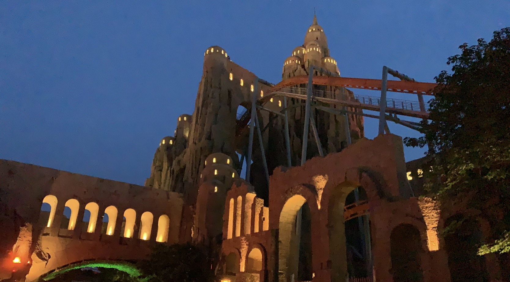 This picture is about the evening highest roller coaster of Happy Valley Beijing form Children's Day of 2019 that I took.